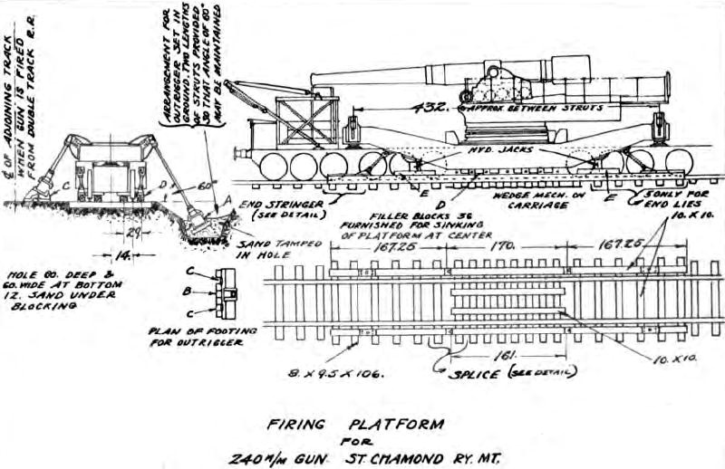 Diagram showing firing setup for French 240 mm St Chamond railway gun, World War I.